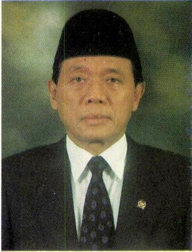 Official portrait of Harmoko as the vice speaker of the People's Representative Council in 1997.